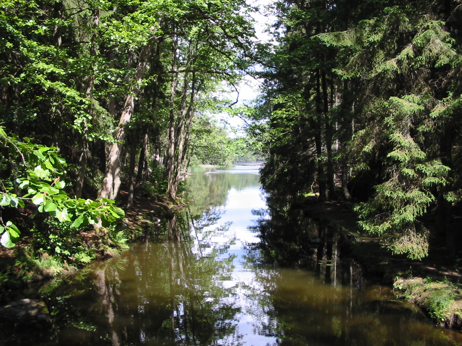 Stream Gammelströmmen, Tyresö, Sweden. Outlet of stream — inlet of lake Tyresö-Flaten. View from bridge crossing the stream.